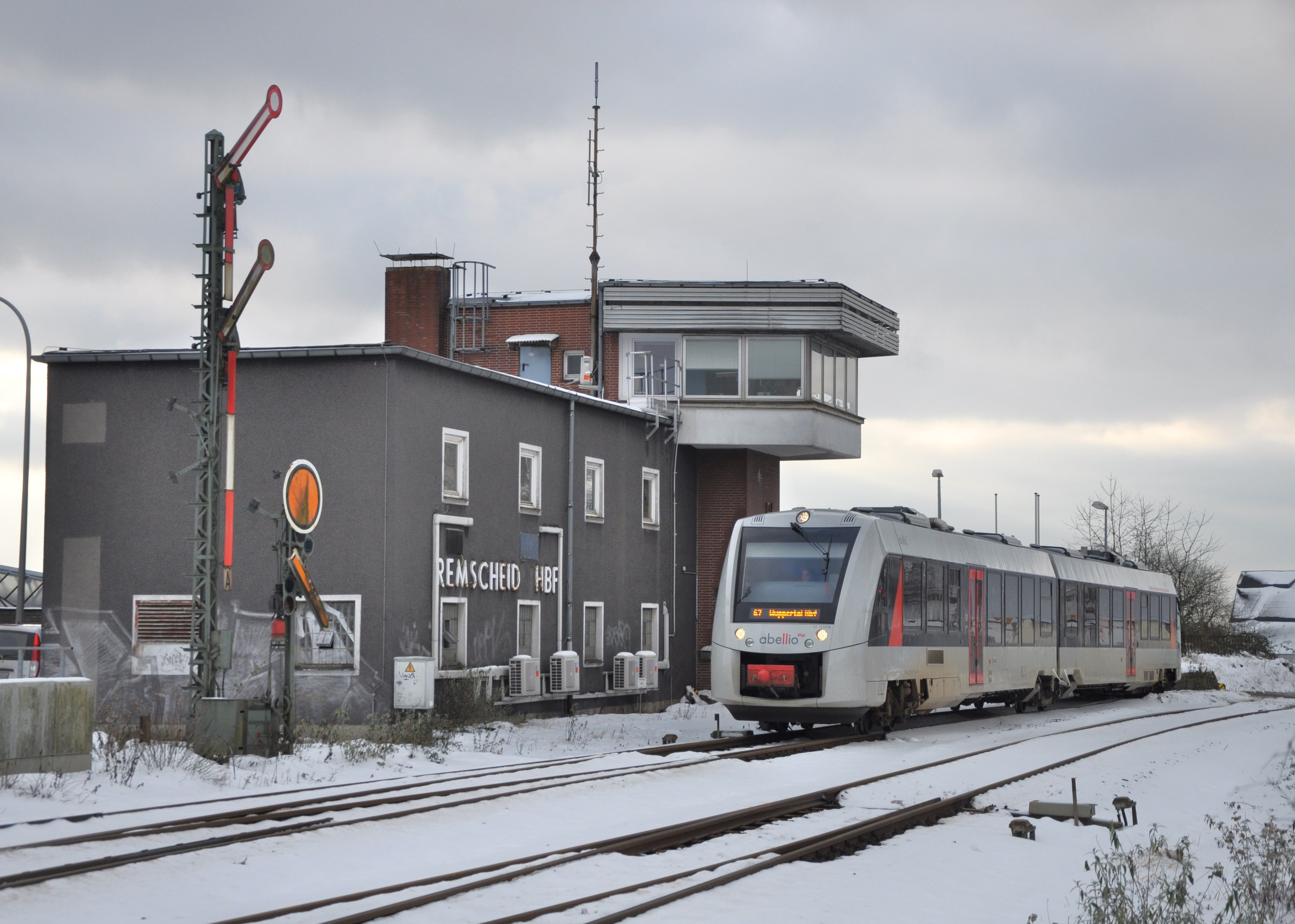 A S7 train of Abellio passes the Rf signalbox.